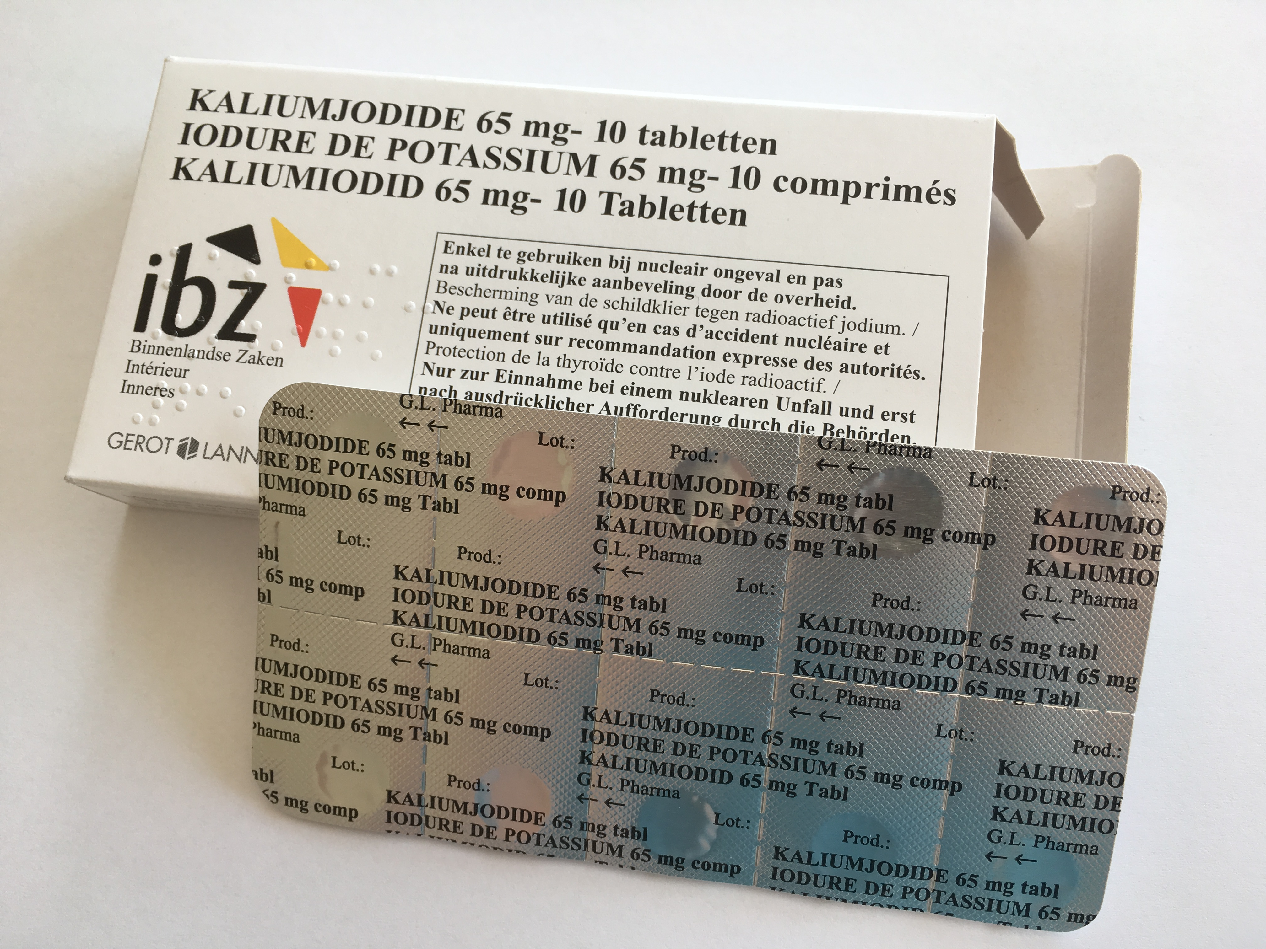 A box of 12.4 x 6.7 x 1.9 cm containing a leaflet and blister strip of 10 potassium iodide 65 mg pills. These boxes are provided by the Belgian government through Belgian pharmacies to the population for use in nuclear accidents. The box bears the logo of the FPS Interior of the Belgian federal government.